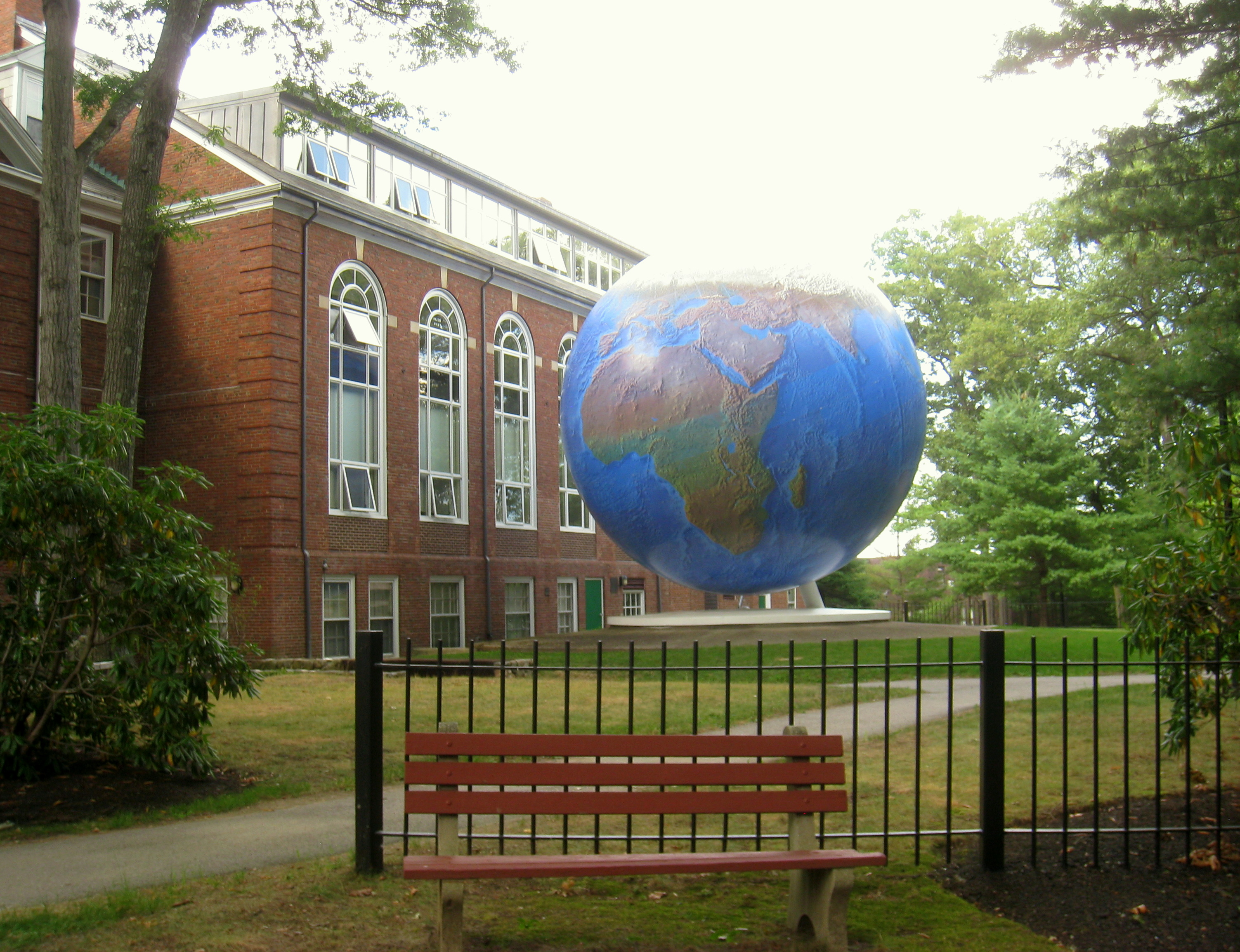 Globe, Babson College, 231 Forest Street, Wellesley, Massachusetts, USA.